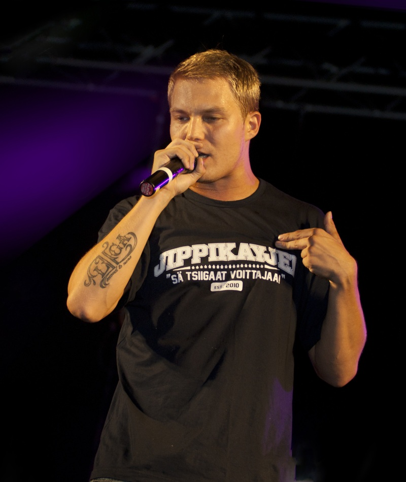 Cheek at Pipefest 2010